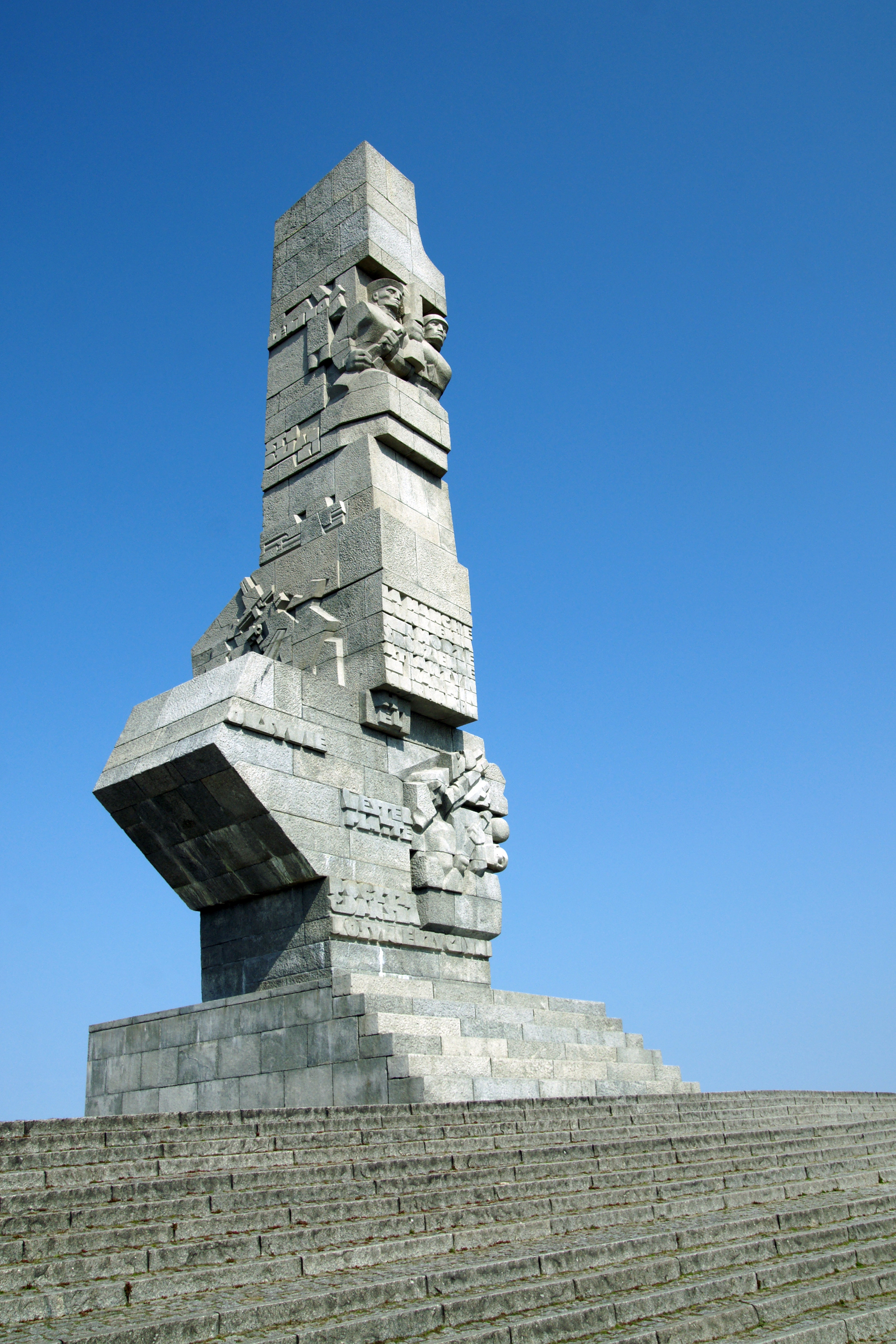 Westerplatte